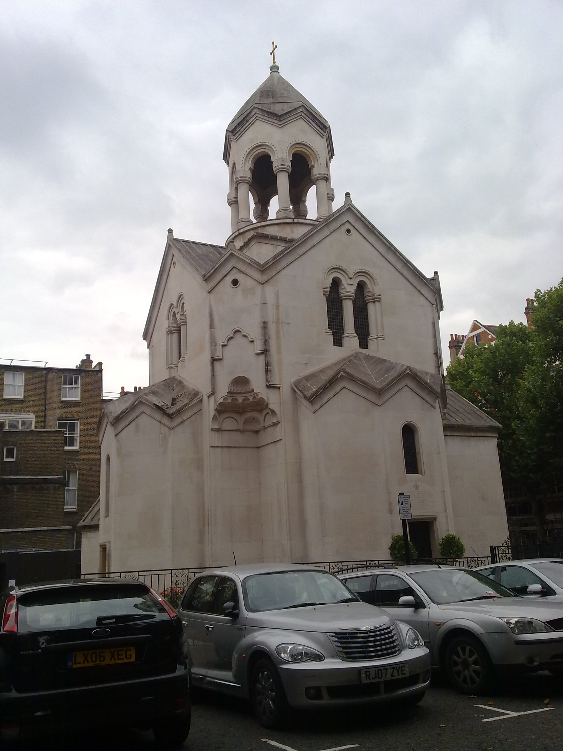 Saint Sargis Armenian church in London